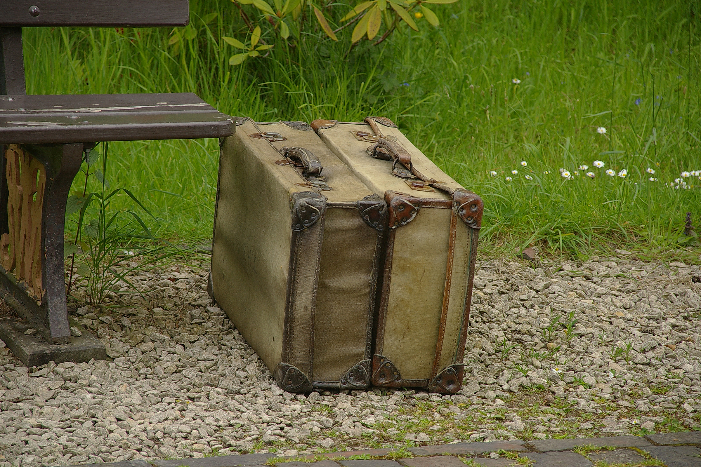 Old luggage at Arley railway station on the Severn Valley Railway